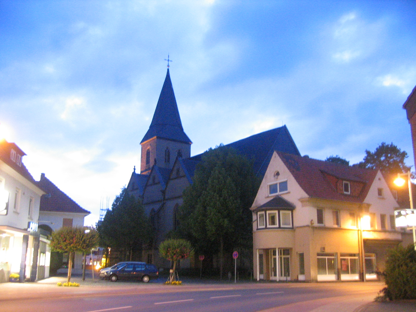 St. Dionysisus church in Preußisch Oldendorf, District of Minden-Lübbecke, North Rhine-Westphalia, Germany.